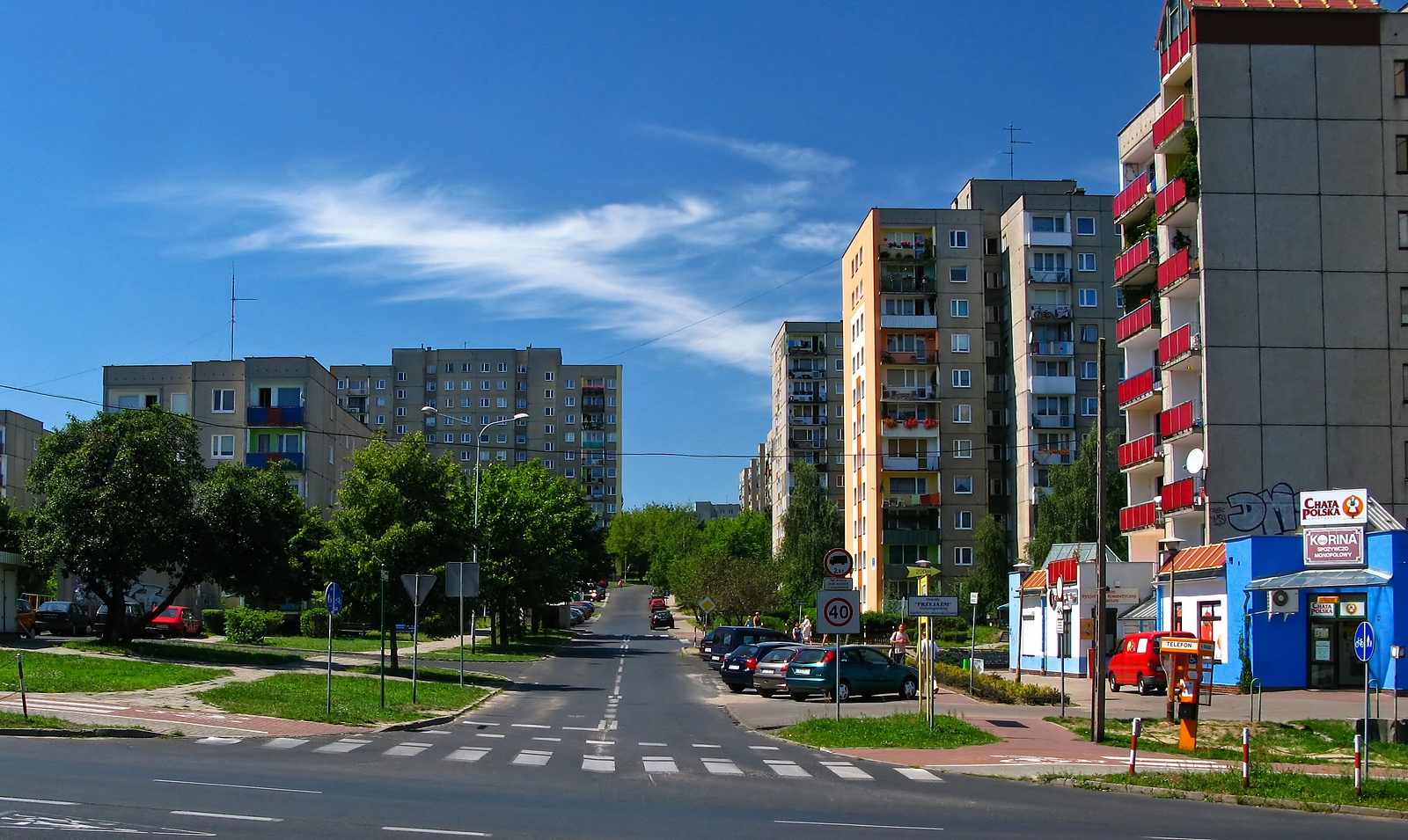 Węgierska street